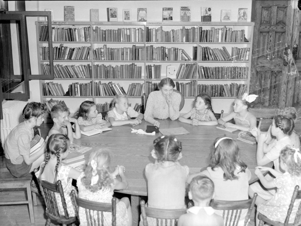 A teacher tells a story to children seated around a circular table in a public library of Notre-Dame-de-Grâce in Montreal